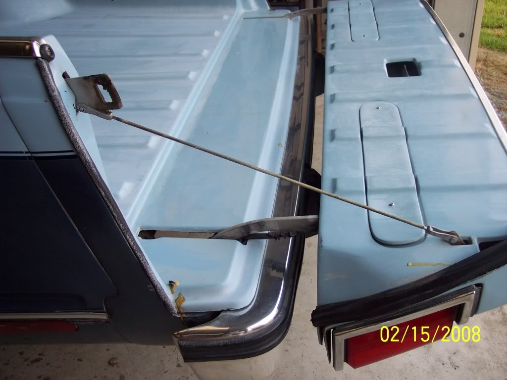 Fairmont Durango functional tailgate detail